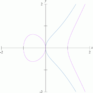 Graph of elliptic curves with j-invariant 1728: y2 = x3−x, y2 = x3+x